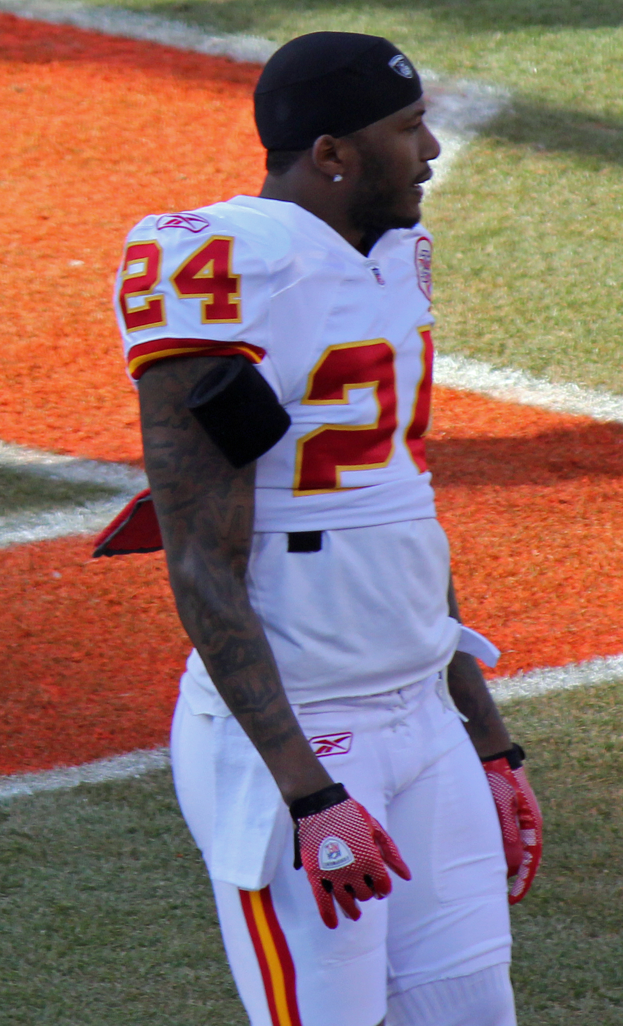 Brandon Flowers, a player on the National Football League.